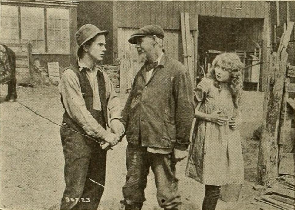 Still from 1917 silent film "An Amateur Orphan" depicting Gladys Leslie and two male actors. Appeared in June 2, 1917 issue of The Moving Picture World.